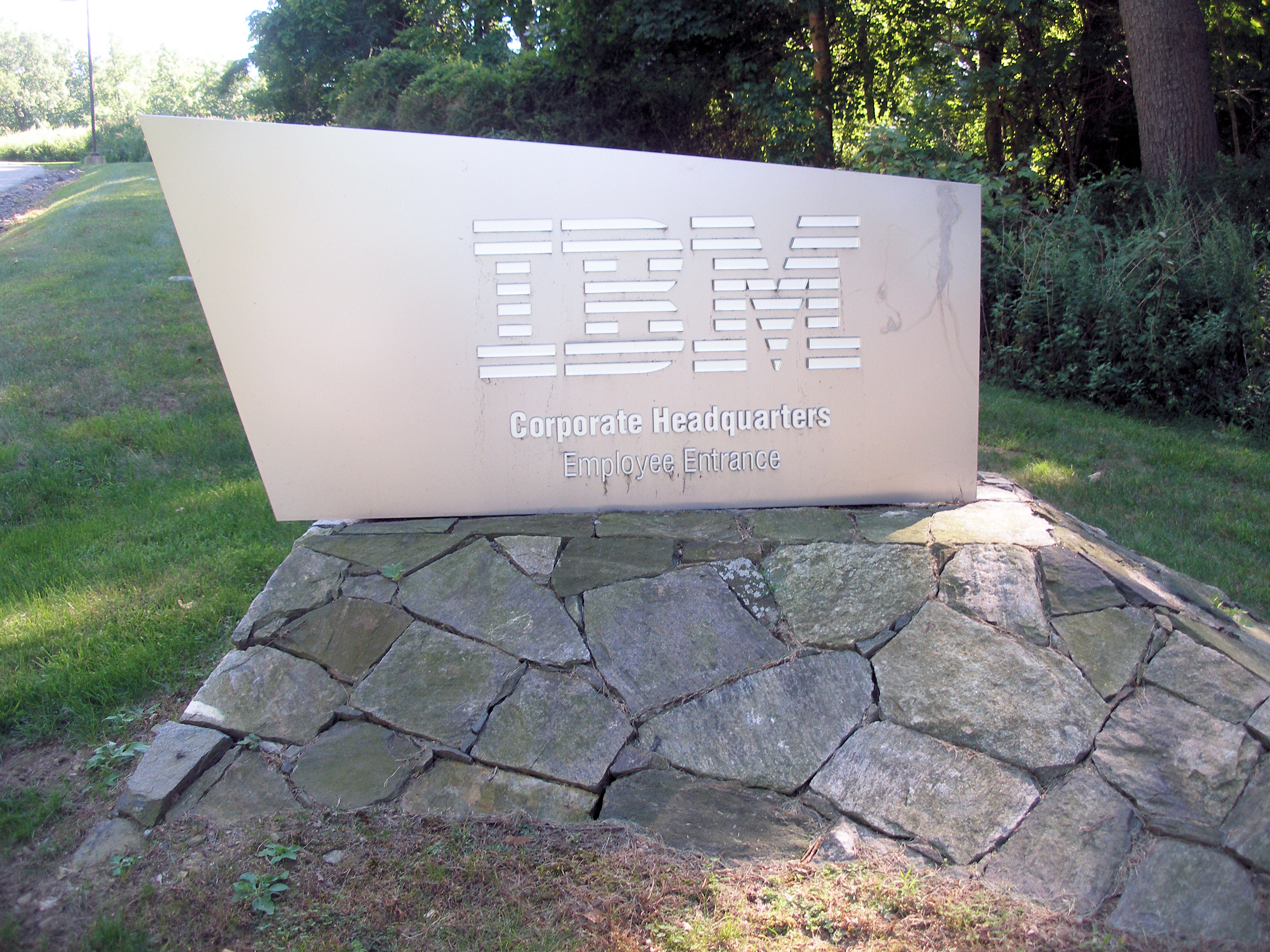 Entrance of IBM Headquaters, Armonk, Town of North Castle, New York, USA.